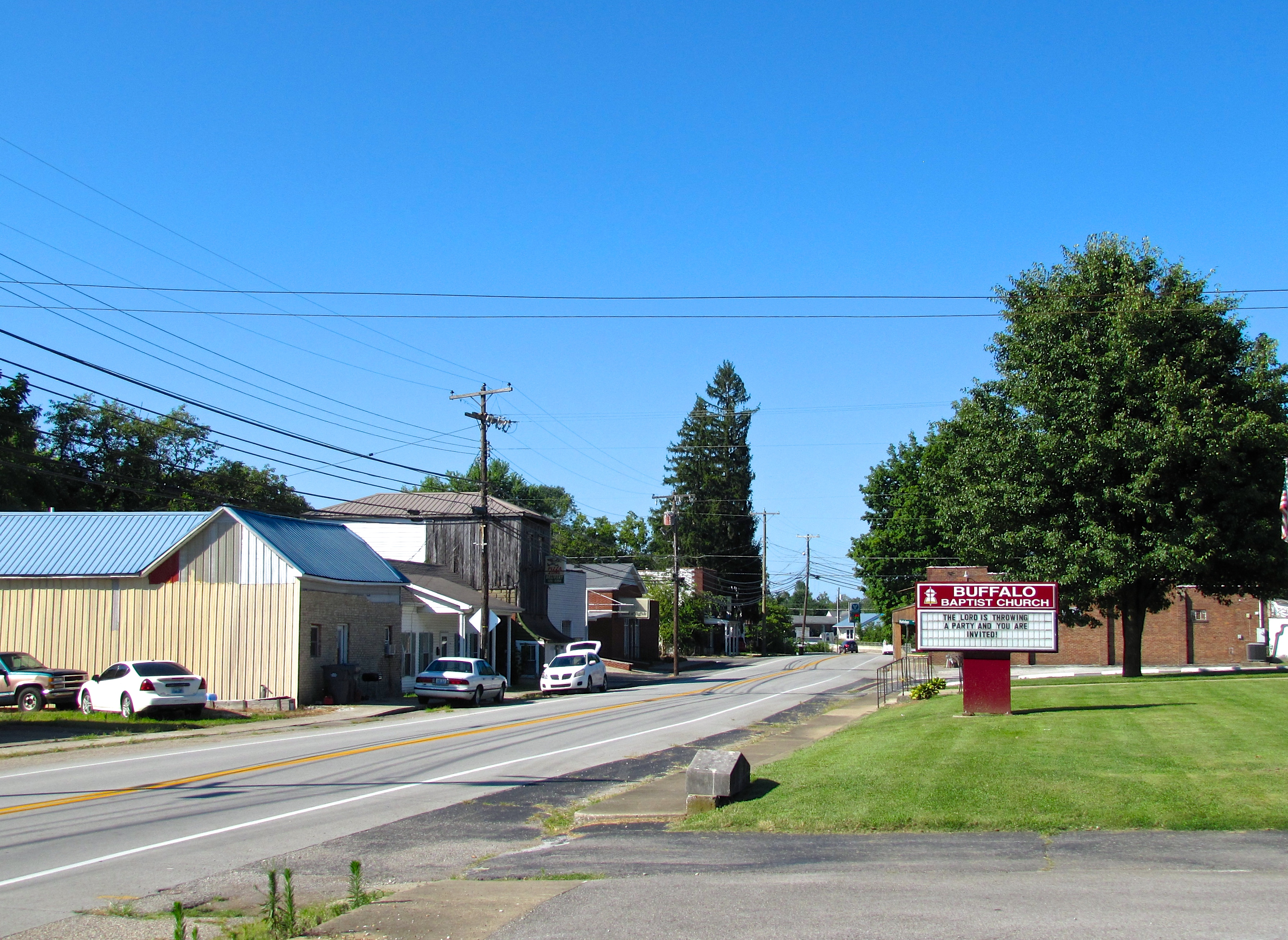 Buildings along Kentucky Route 61 (Greensburg Road) in Buffalo, Kentucky, United States.